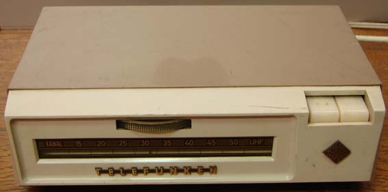 1950's Telefunken UHF-TV converter set top box